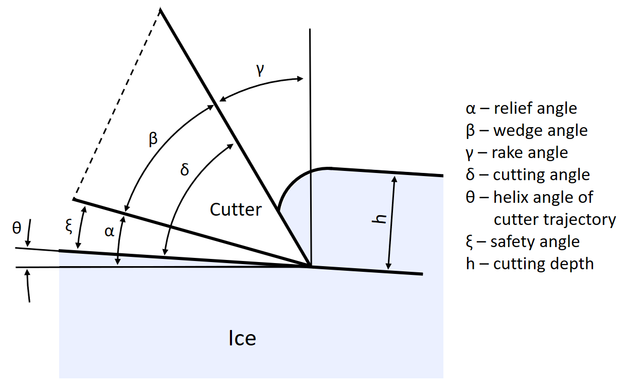 Diagram of some geometric parameters in the design of ice drill cutters. Redrawn from Talalay, Pavel G. (April 2012). Drill heads of the deep ice electromechanical drills (Report). Jilin University, China: Polar Research Center, p. 18.